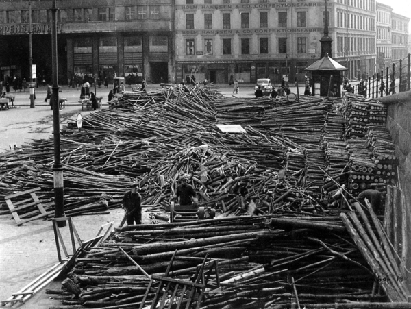 Firewood supply in Oslo. Folketeaterbygningen firewood stock at Youngstorget, 1943.